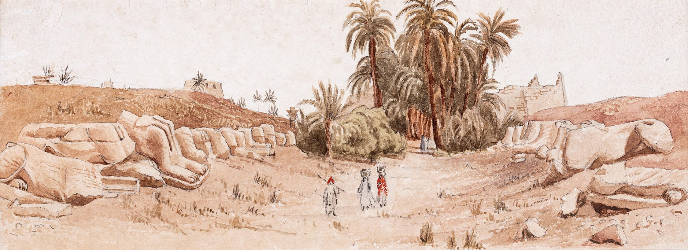 Offered for sale by Abbott and Holder in July 2020, when it was described as "Egypt: ‘Avenue of Sphinxes leading to Great Pylon at Karnak’. Watercolour. Inscribed and dated 1839 verso. 5x13 inches.".